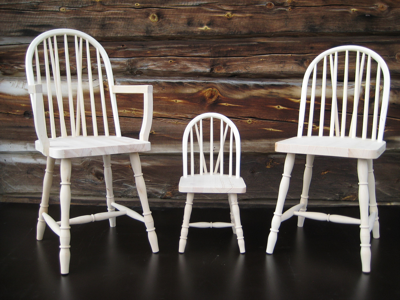 Three different versions of the traditional budalsstol (chair from Budal, Norway), a Norwegian "Windsor chair" type straight-back chair, made by joiner John Tovmo. Materials: Seat= pine, legs and ribs=birch, bow=sallow